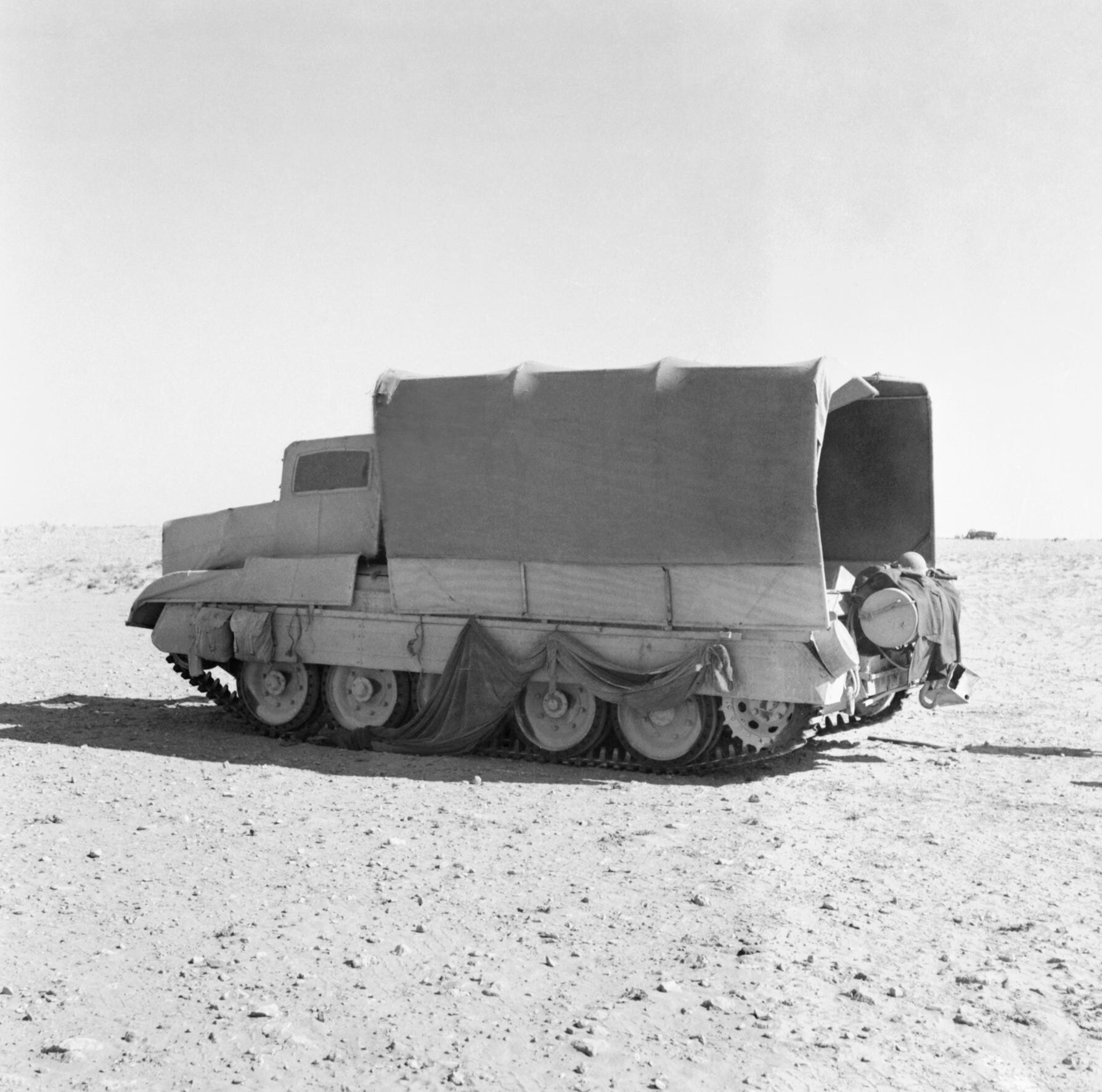 THE BRITISH ARMY IN NORTH AFRICA 1942; A Crusader tank with its 'sunshield' lorry camouflage erected, 26 October 1942.